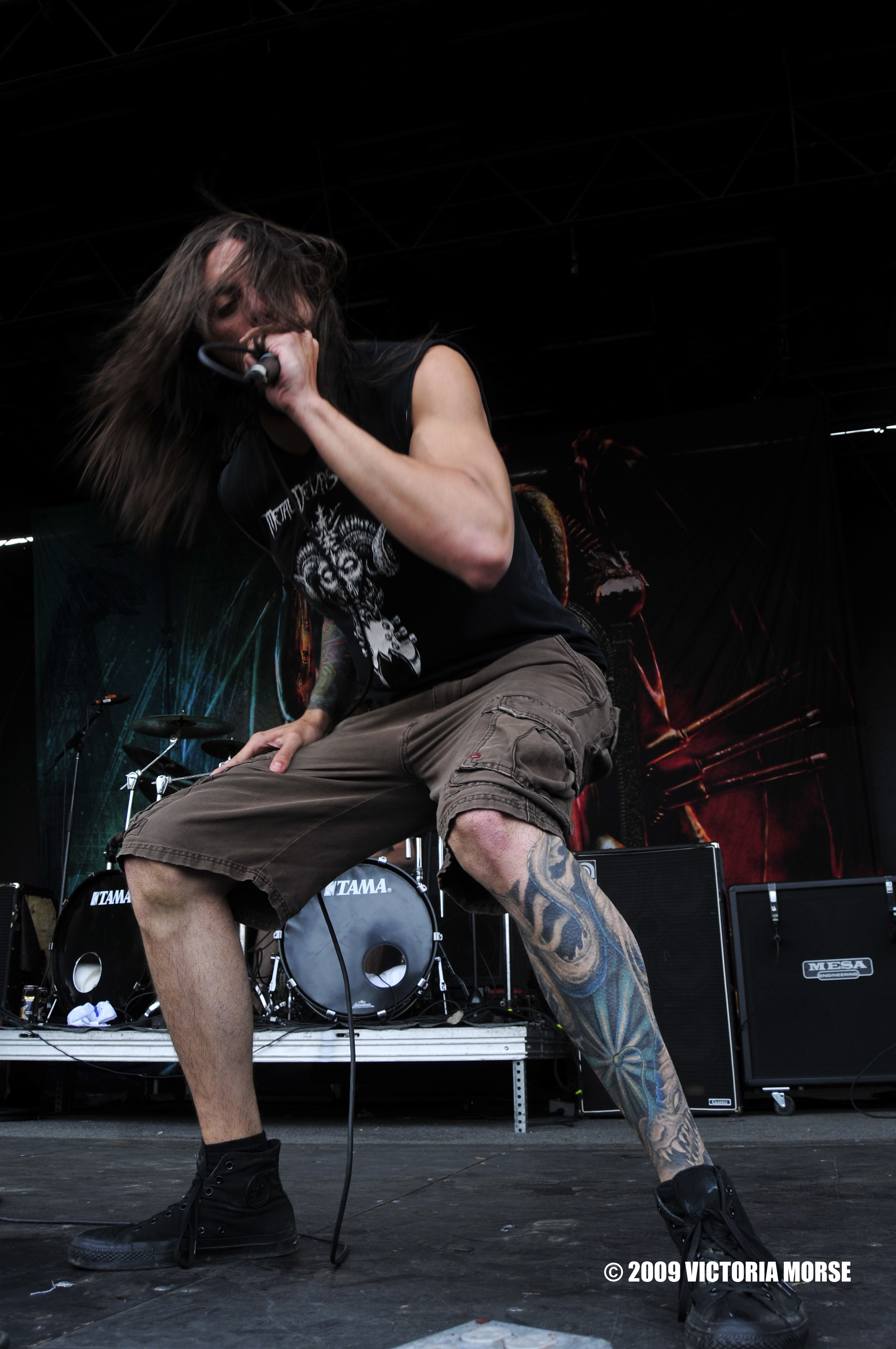 Photo taken August 8 @ Comcast Theatre.